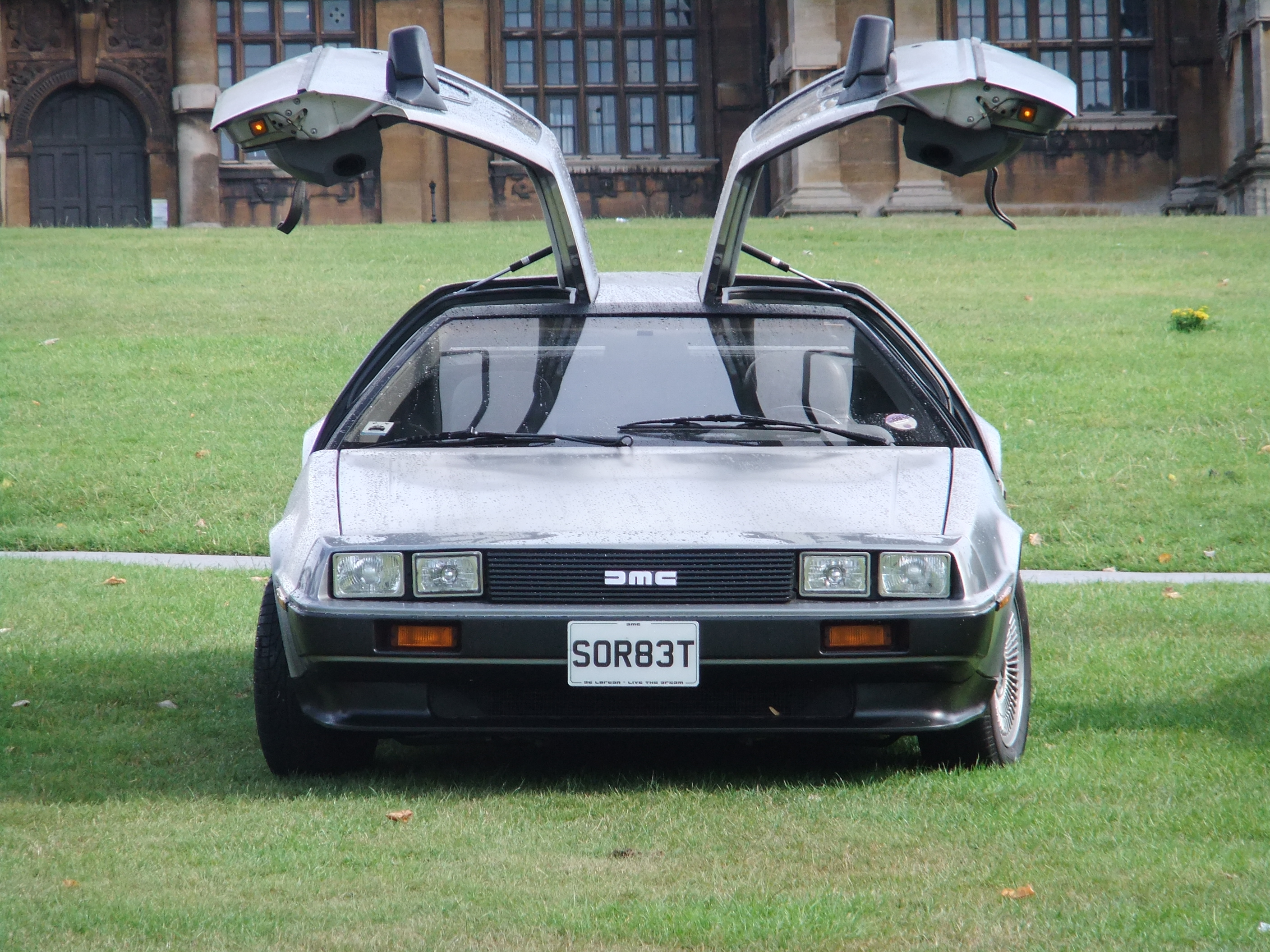 Taken at Wollaton Park.